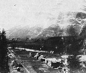 Ghost town of Anthracite, near Banff, Alberta, Canada. Public domain under Canadian copyright law as author is unknown and photo was taken over 50 years ago.